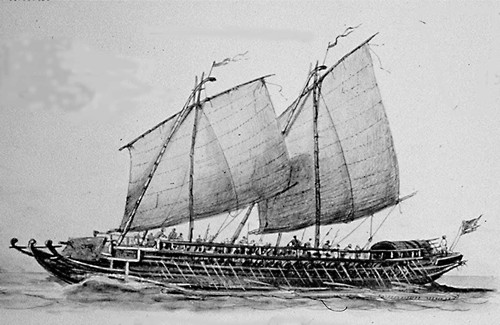 A lanong (or joanga), an Iranun warship of the late 18th century with three banks of oars under full sail. Upward of 100 feet long, these vessels were provided with large bamboo outriggers, both sides were rowed and paddled by more than 190 men.